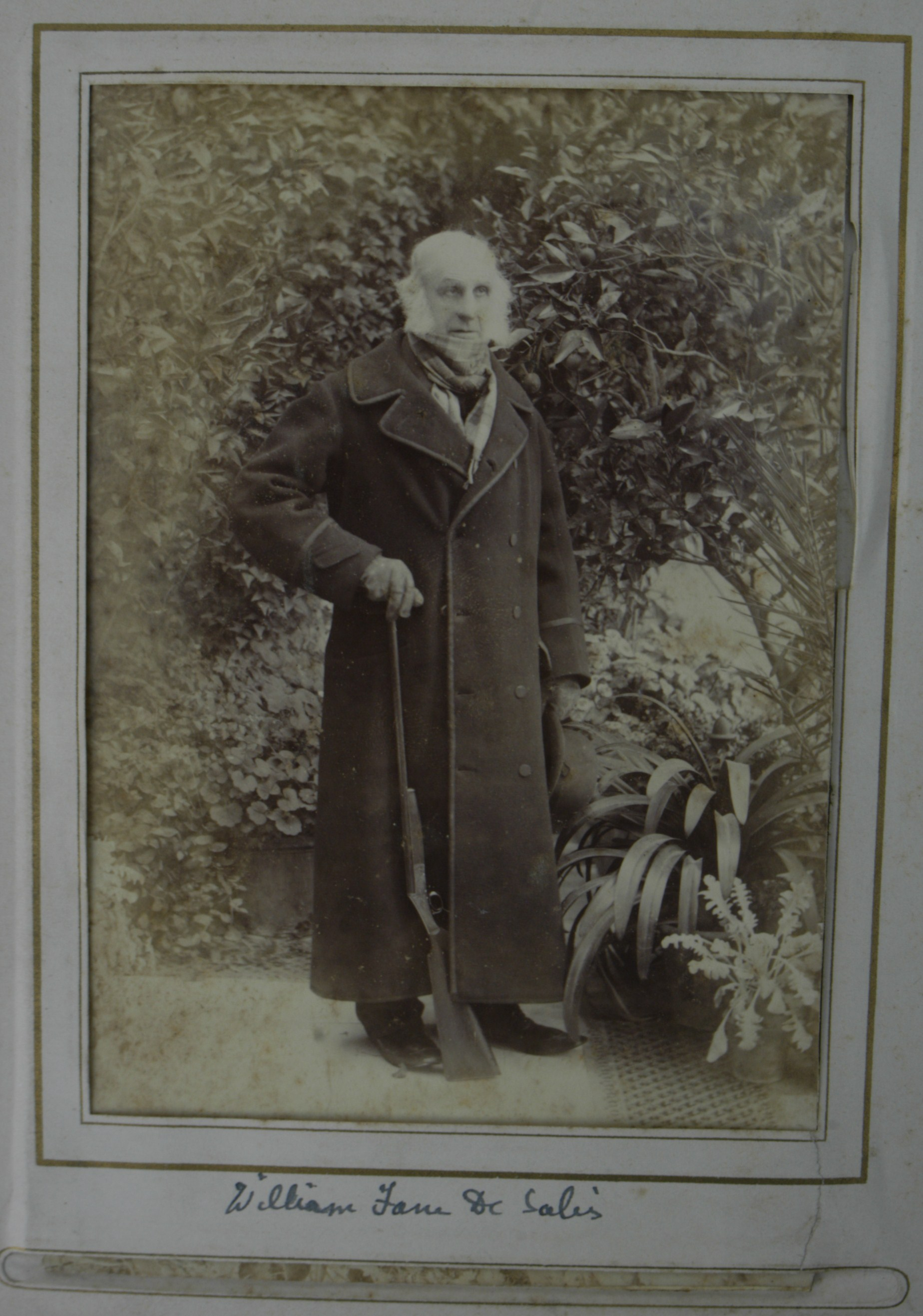 My digital photo (R. de SalisRodolph (talk) 14:55, 29 May 2014 (UTC)) of William Fane De Salis (1812-1896) with a shotgun, in a greatcoat, circa 1890. Probably at Dawley Court, (possibly at Teffont).